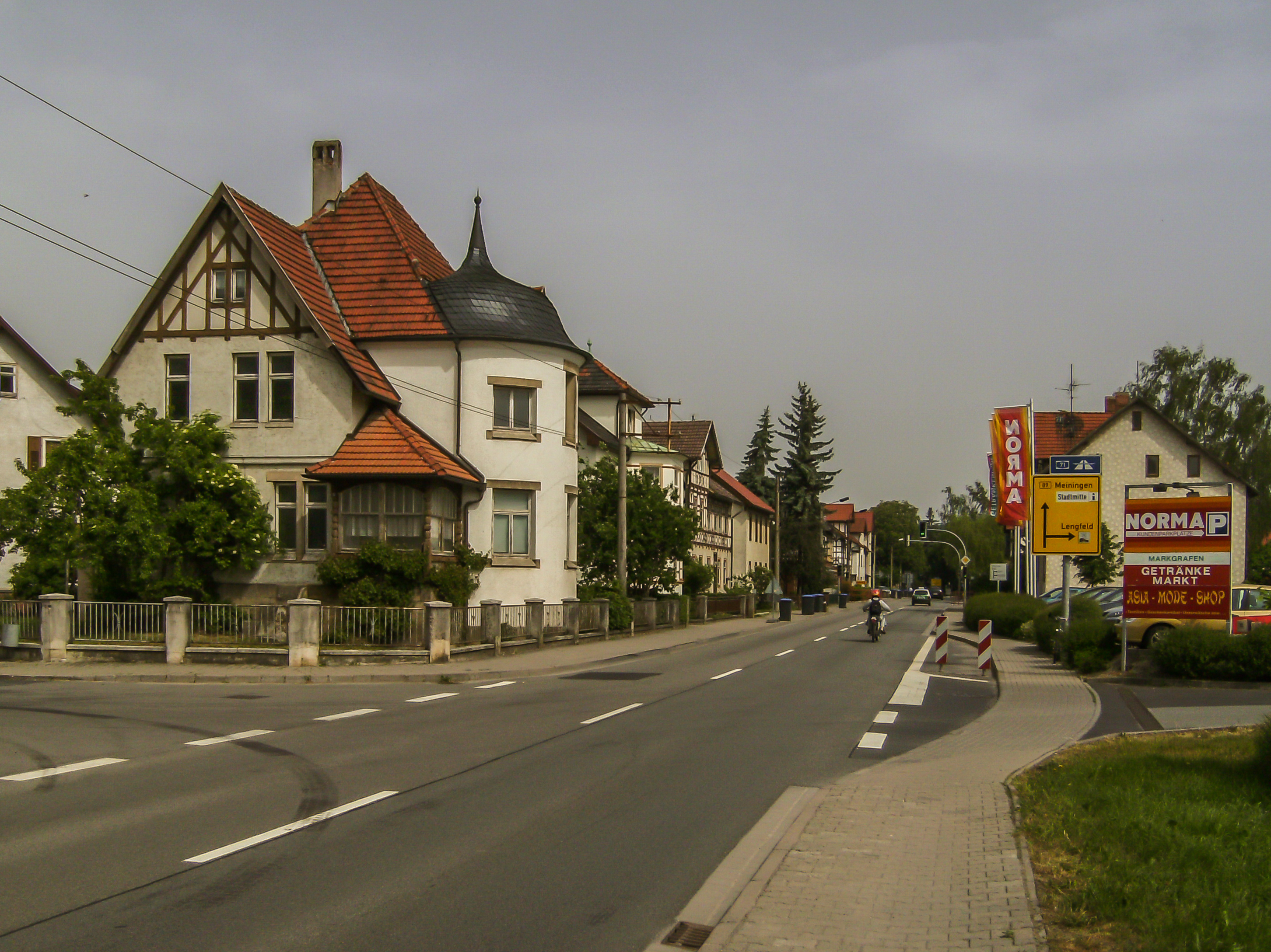 Themar, view to a street